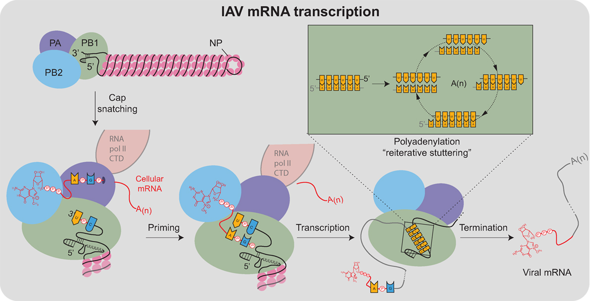 Transcription of IAV mRNAs by the viral polymerase. Viral mRNA transcription occurs when the viral ribonucleoproteins reach the host cell nucleus and is assisted by the association of the viral polymerase (PA subunit) with the cellular RNA polymerase II C-terminal domain (RNA pol II CTD). Transcription initiates by a “cap-snatching” mechanism where the PB2 subunit binds to the 5′ cap of a host mRNA (red). Cap binding positions the region of the mRNA 10–13 nucleotides downstream for cleavage by the endonuclease domain in the PA subunit. Following cleavage, a conformational shift repositions the acquired mRNA capped primer to the PB1 subunit where the 3′ end base-pairs with a complimentary sequence at the vRNA 3′ end. Following the priming event, the viral polymerase extends the mRNA transcript. The transcription is terminated by a “reiterative stuttering” process (depicted in the box), which occurs when the polymerase encounters the 5–7 consecutive uracil bases at the vRNA 5′ end. The “reiterative stuttering” function likely involves multiple cycles of dissociation and reannealing, and effectively polyadenylates [A(n)] the viral mRNA by continuously repositioning the elongating 3′ end on the uracil-rich region of the vRNA template.